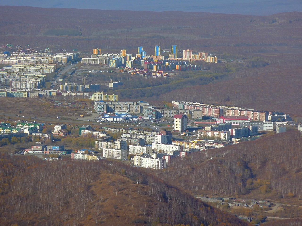 Petropavlovsk-Kamchatsky. Districts "Gorizont" ("Horizon") and "Severo-Vostok" ("Northeast").